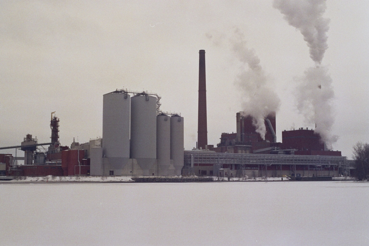 The Stora Enso pulp and paper mill in the city of Oulu in Finland.